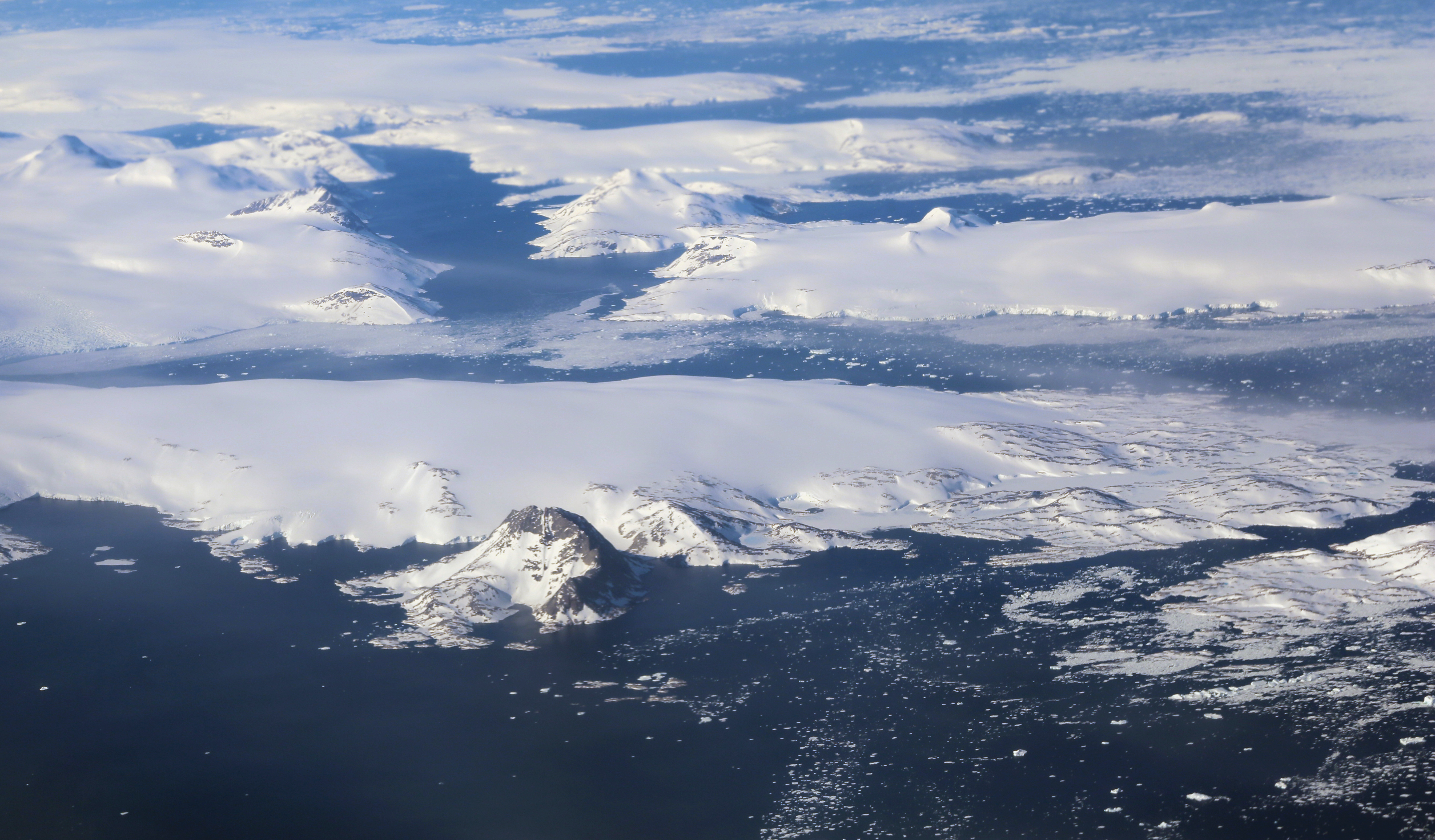 Glacier-fed (and carved) fjords in East Greenland, aka Østgrønland or Tunu, in the Sermersooq Kommune (a vast municipality), just below the 64th parallel.